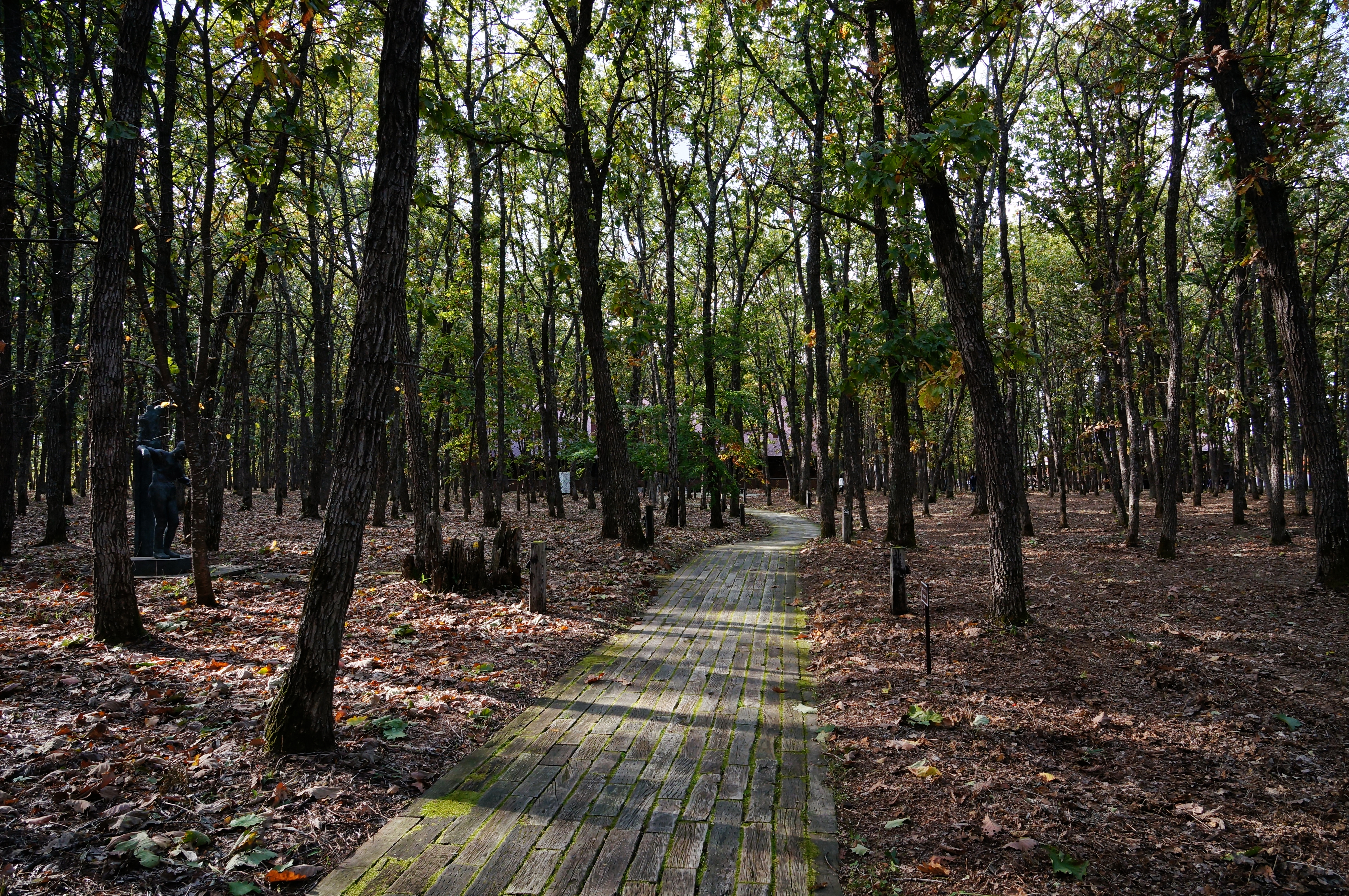 Nakasatsunai Art Village in Nakasatsunai, Hokkaido prefecture, Japan.